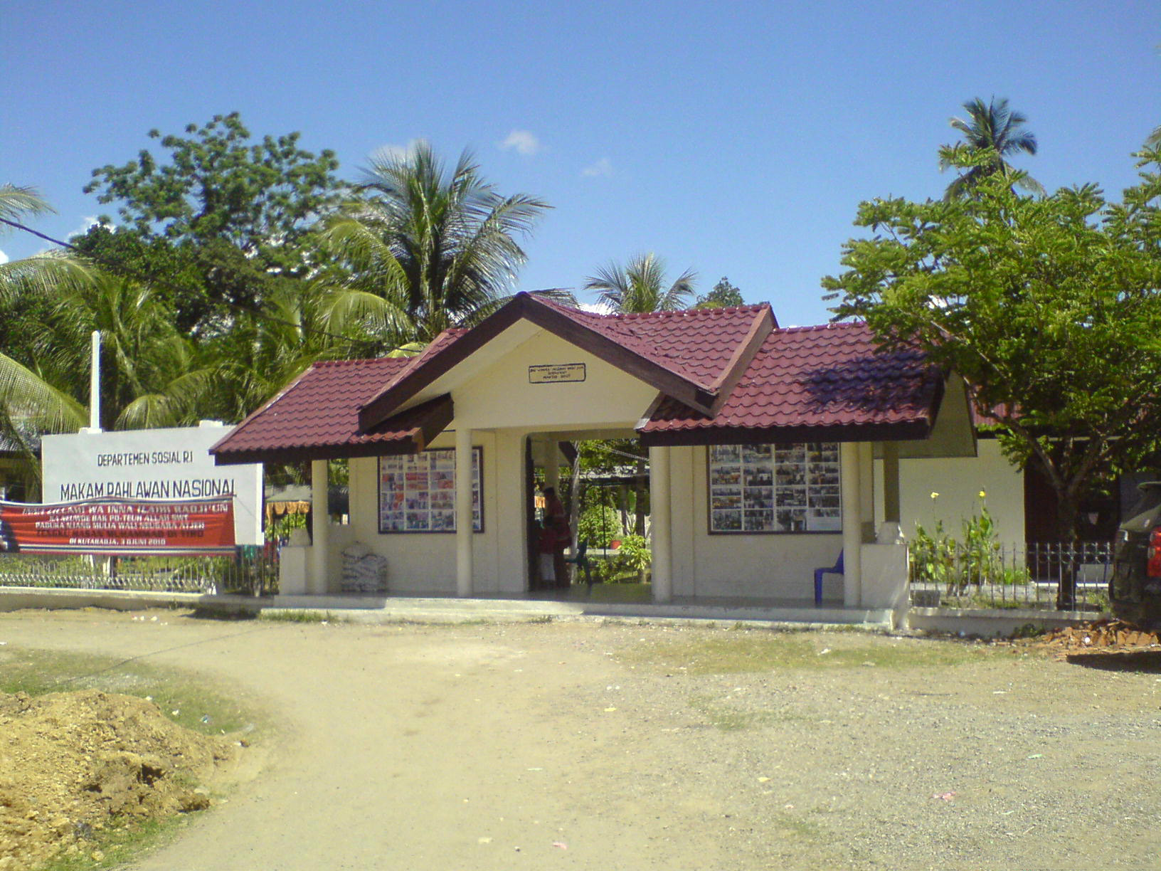 Teungku Chik di Tiro mausoleum